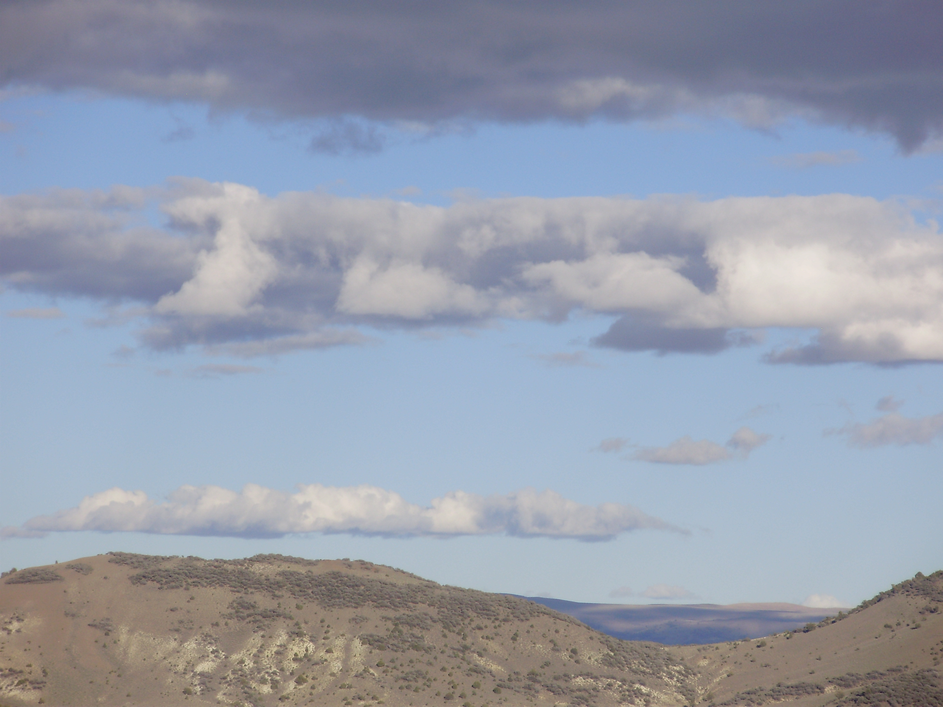 Stratocumulus clouds viewed from near Jefferson Summit, Nevada